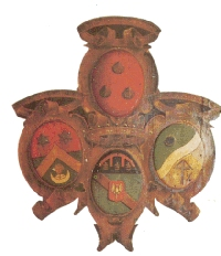 Wappenschilder Nationes in Bologna